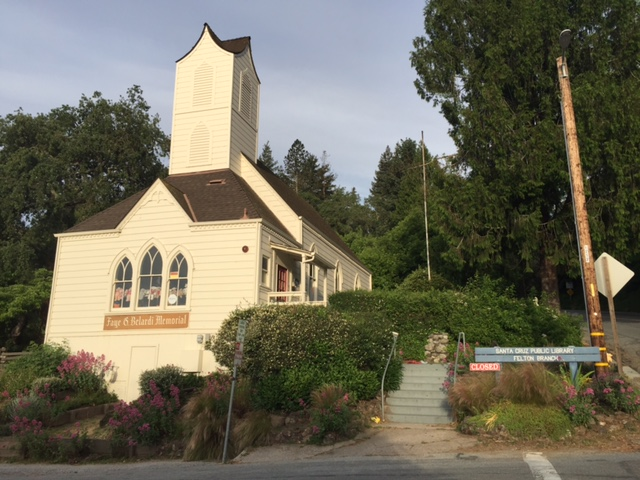 Felton Library